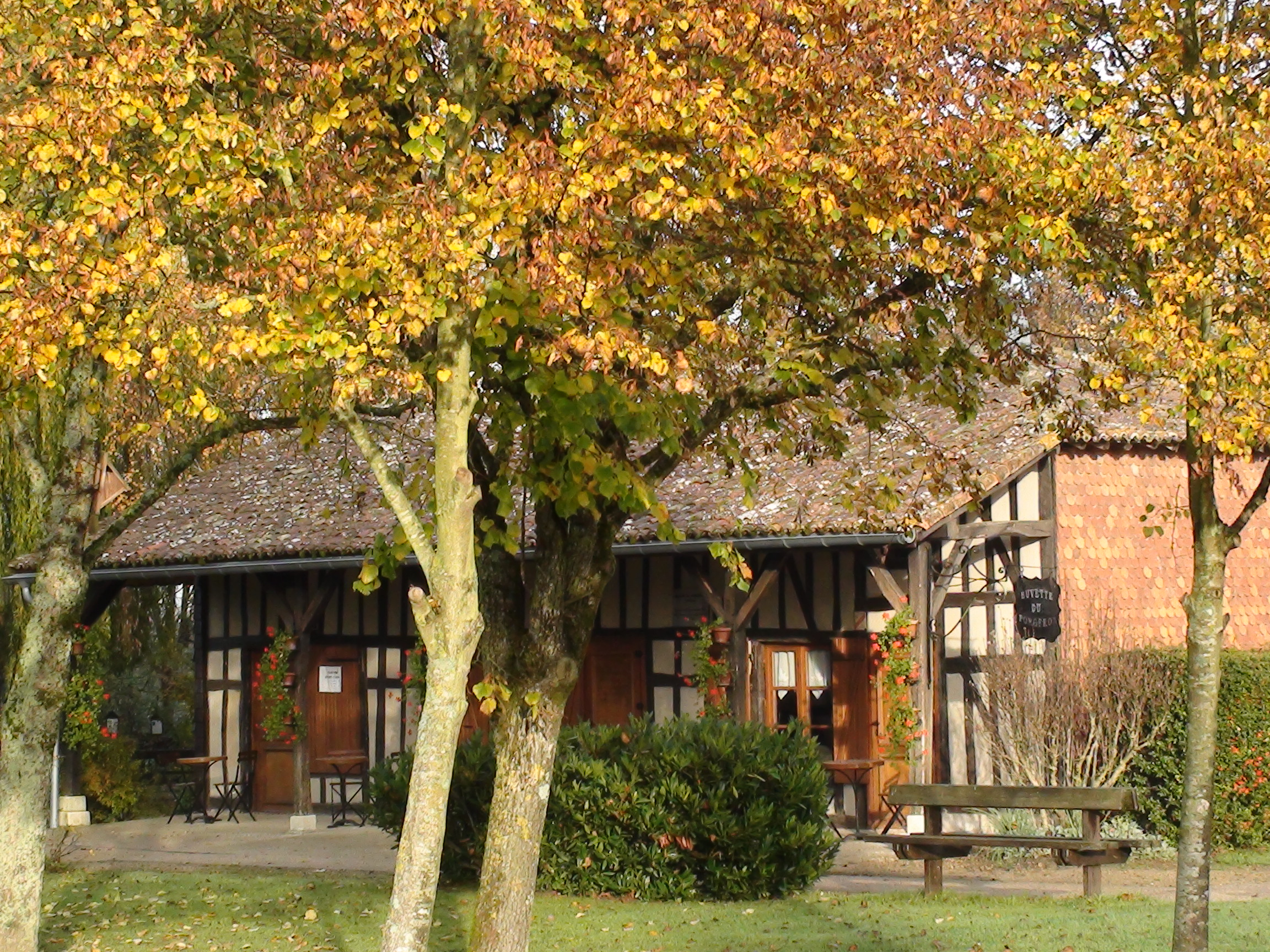 Sainte Marie du Lac Nuisement - old house in the Der village museum